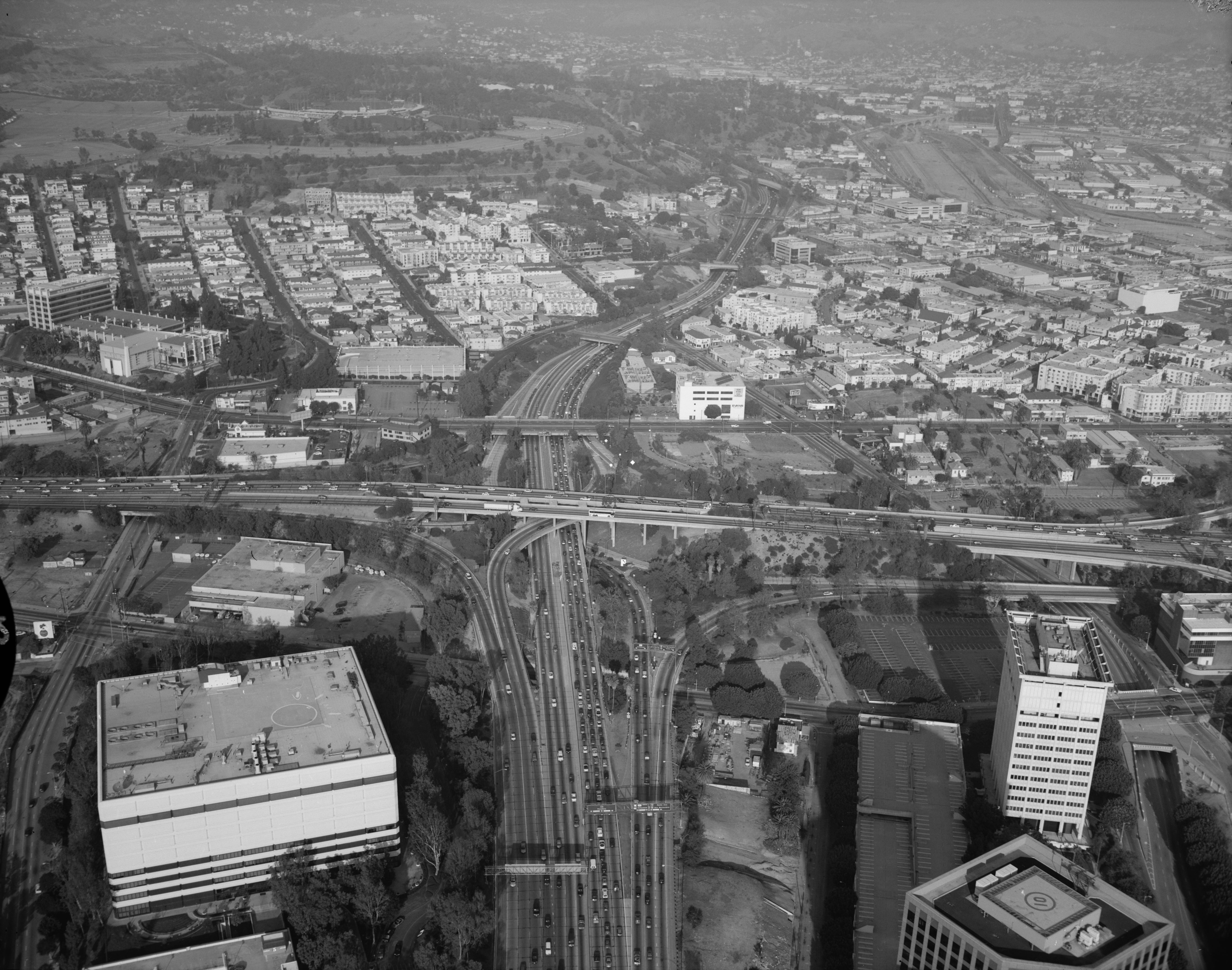 Four Level Interchange of Arroyo Seco Parkway and Highway 101, looking north-east from Downtown Los Angeles - in 1999. Elysian Park in upper left.